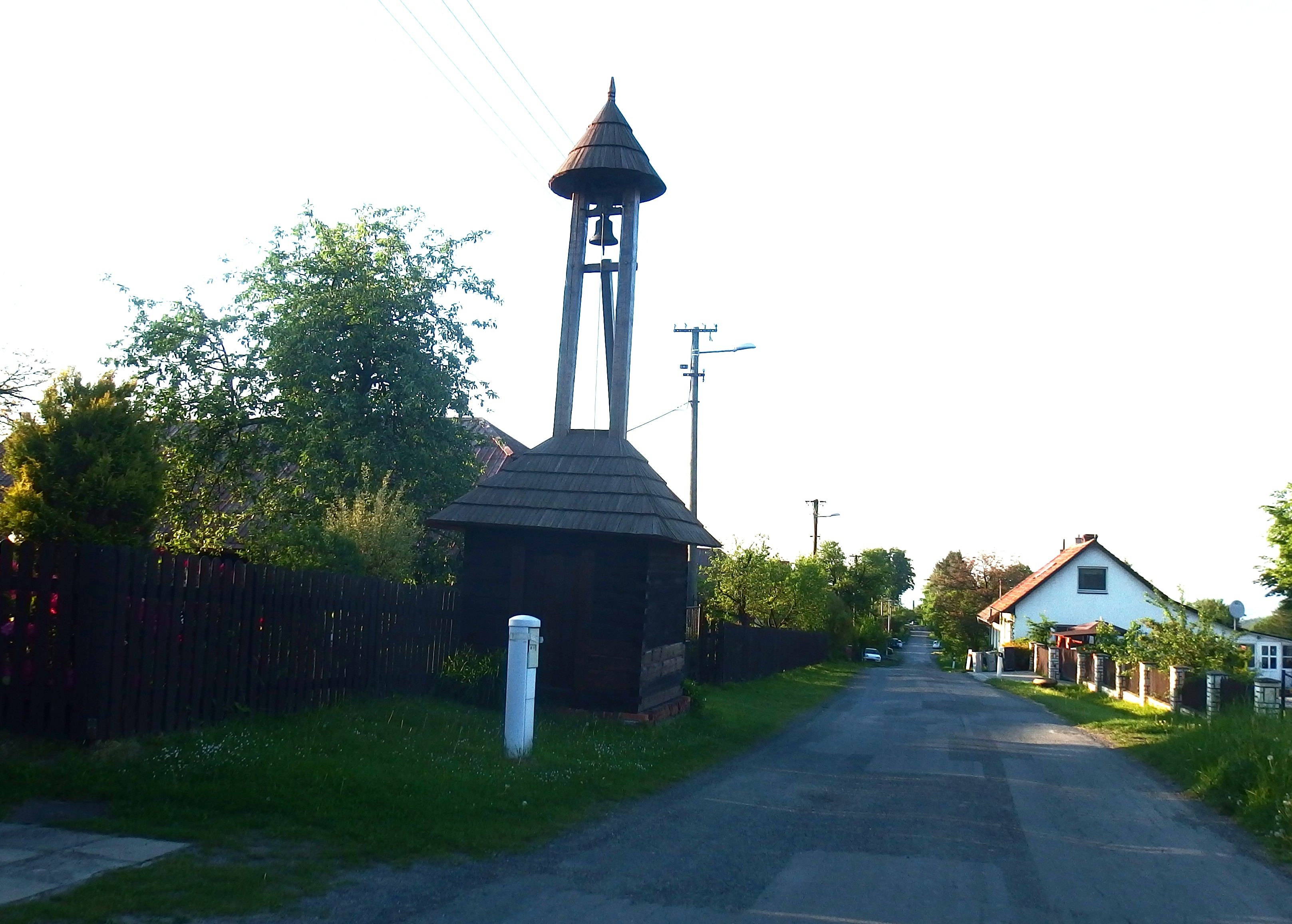 Loučka, Vsetín District, Czech Republic, part Lázy. Bell tower.